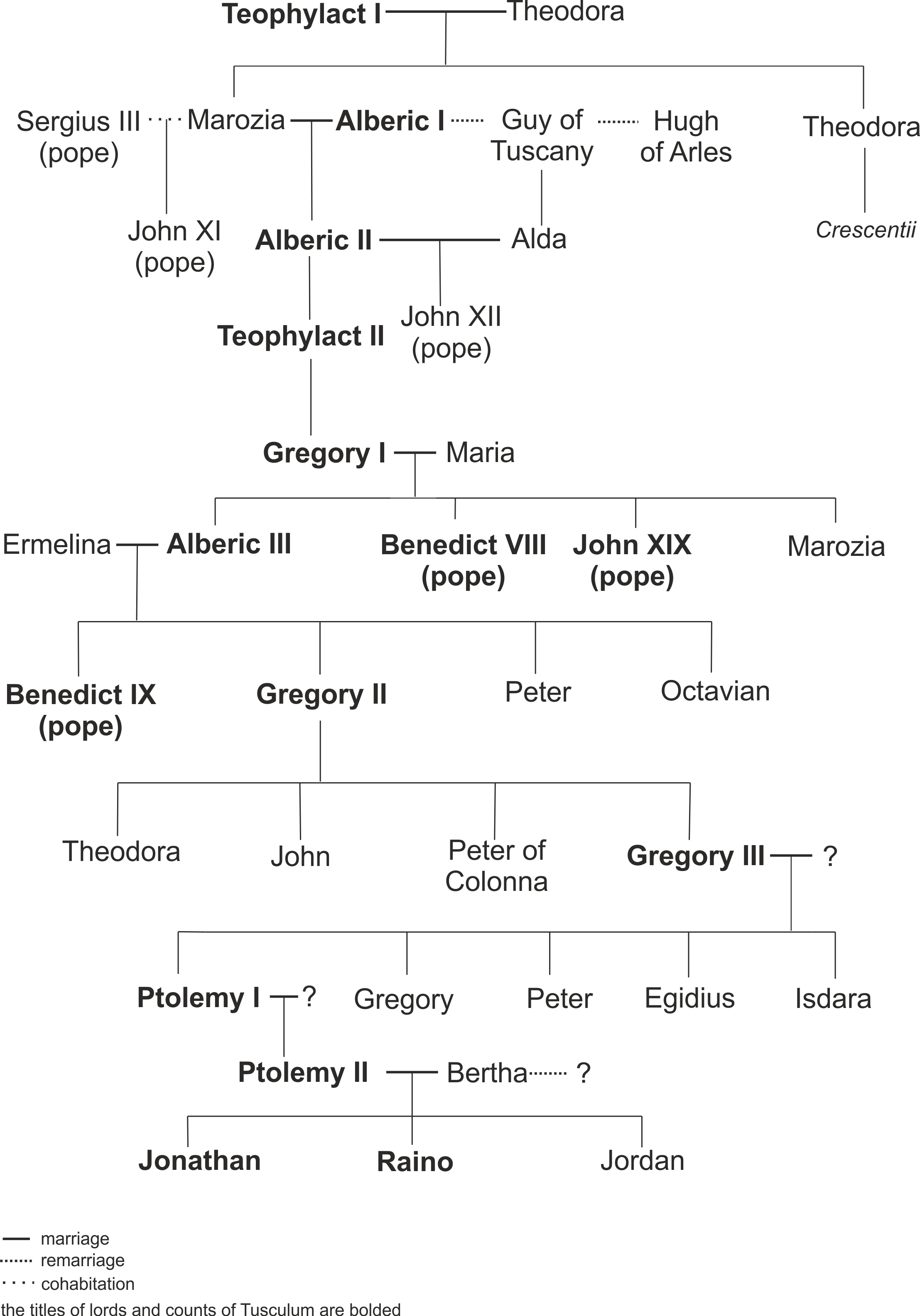 Family tree of counts of Tusculum